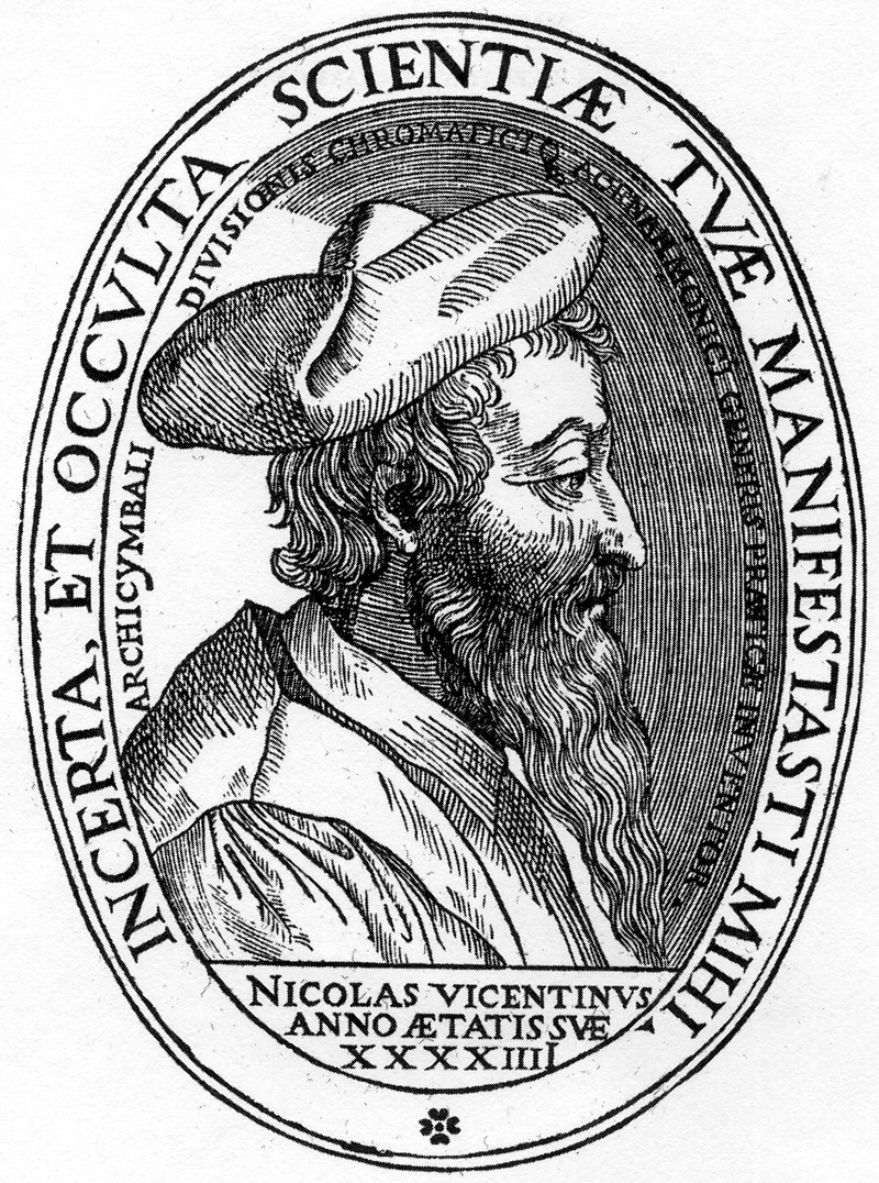 Portrait of Nicola Vicentino (1511 – c.1575), from his treatise of 1555